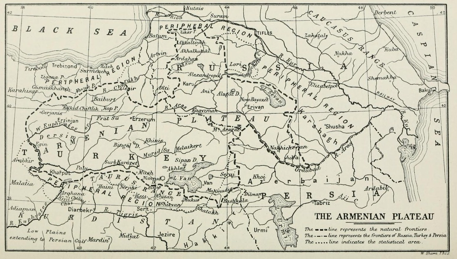 The map of the Armenian plateau according to British traveler H. F. B. Lynch, 1901